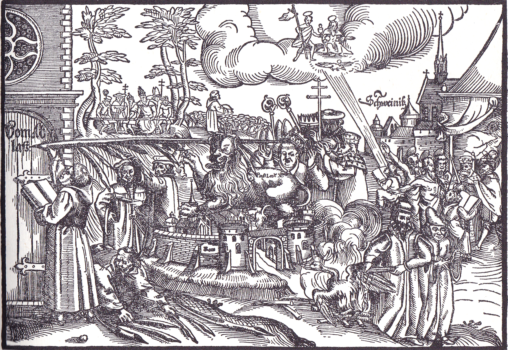 The dream of Frederick III in Schweinitz in 1517. Woodcut after Luther's account of what Frederick had told him.